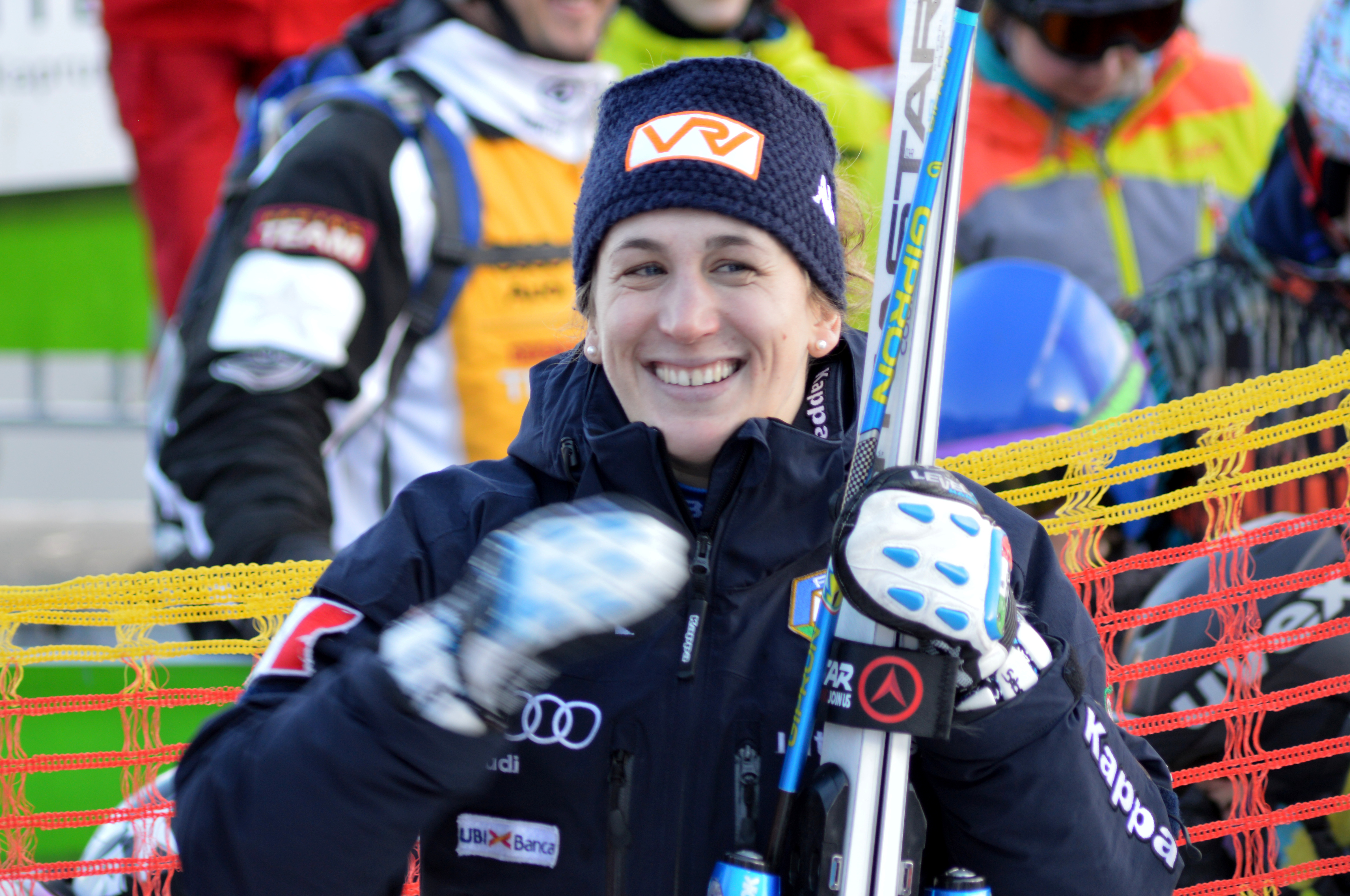 Sabrina Fanchini is an italian ski-alpin-racer, born 1988 in Lovere, Italy. The picture was taken at the European Cup Giant Slalom (22nd of January 2015) in Zell am See, Salzburg (state), Austria. Fanchini reached the 4th place behind Wendy Holdener (Switzerland), Taina Barioz (France) and Stephanie Brunner (Austria).